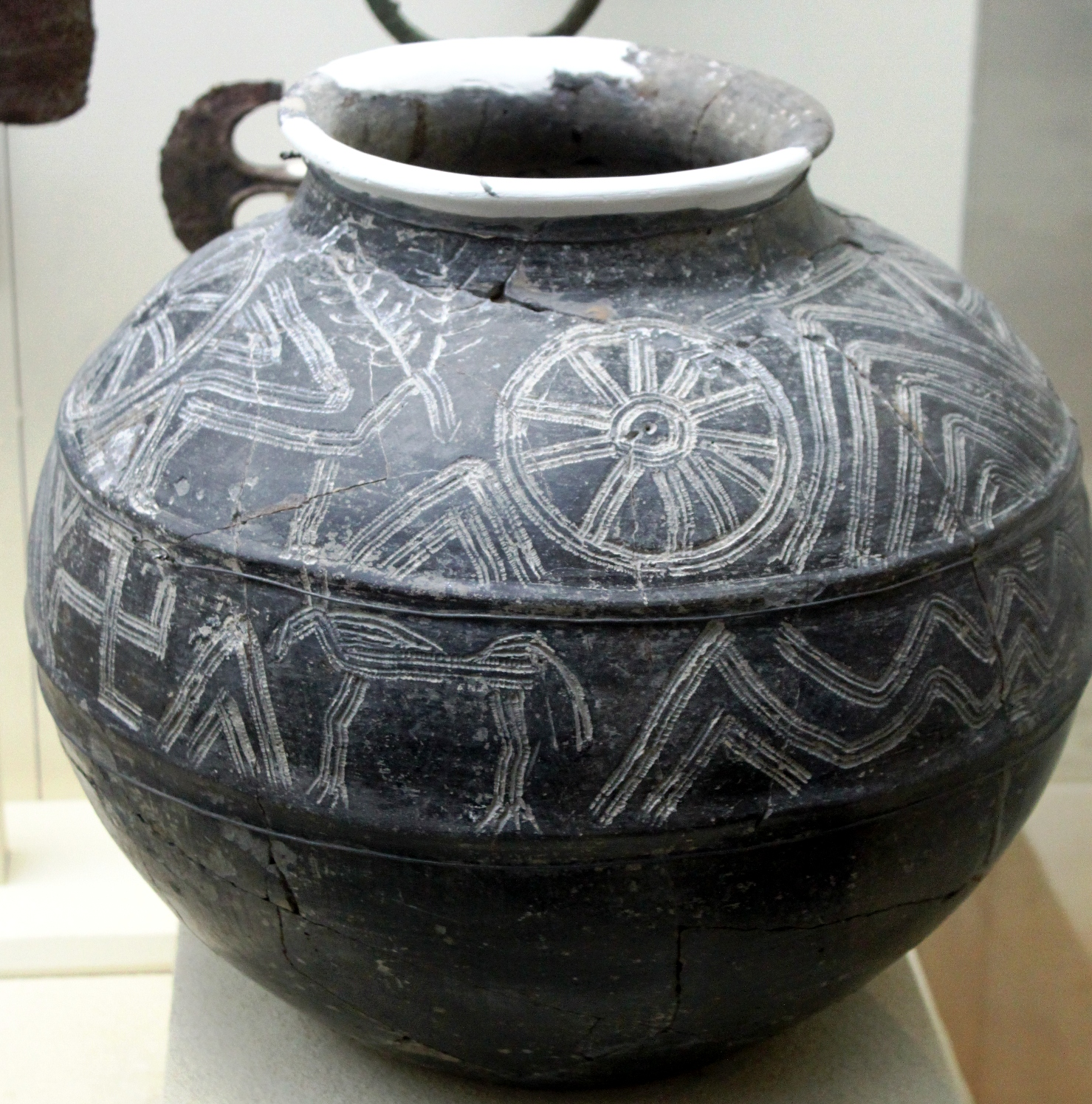 Clay vessel with a swastika from the town of Shamkir, Bronze Age, 16-15 c BCE; Shamkir archeological expedition